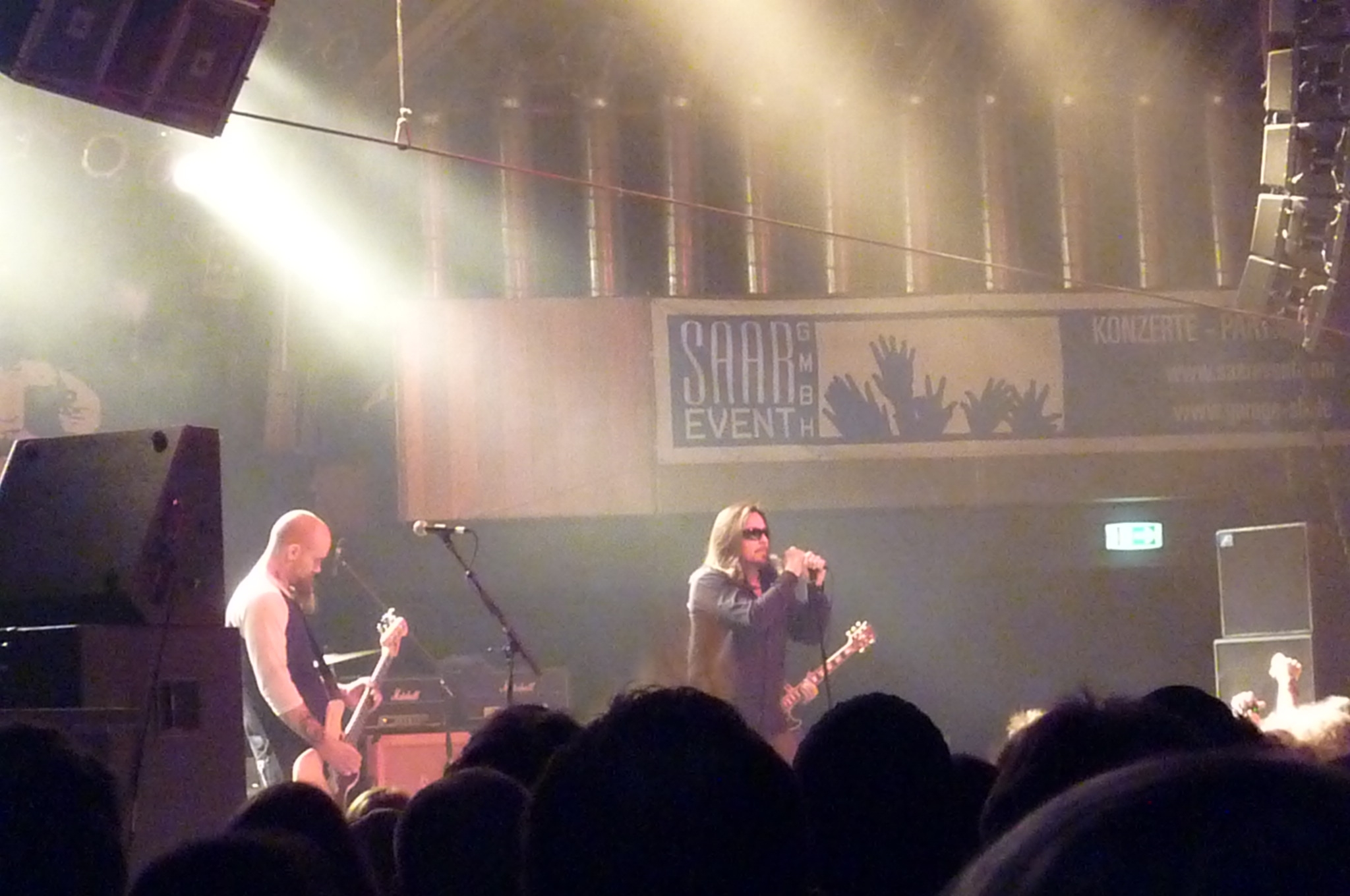 Kyuss Lives live at the Garage Saarbrücken